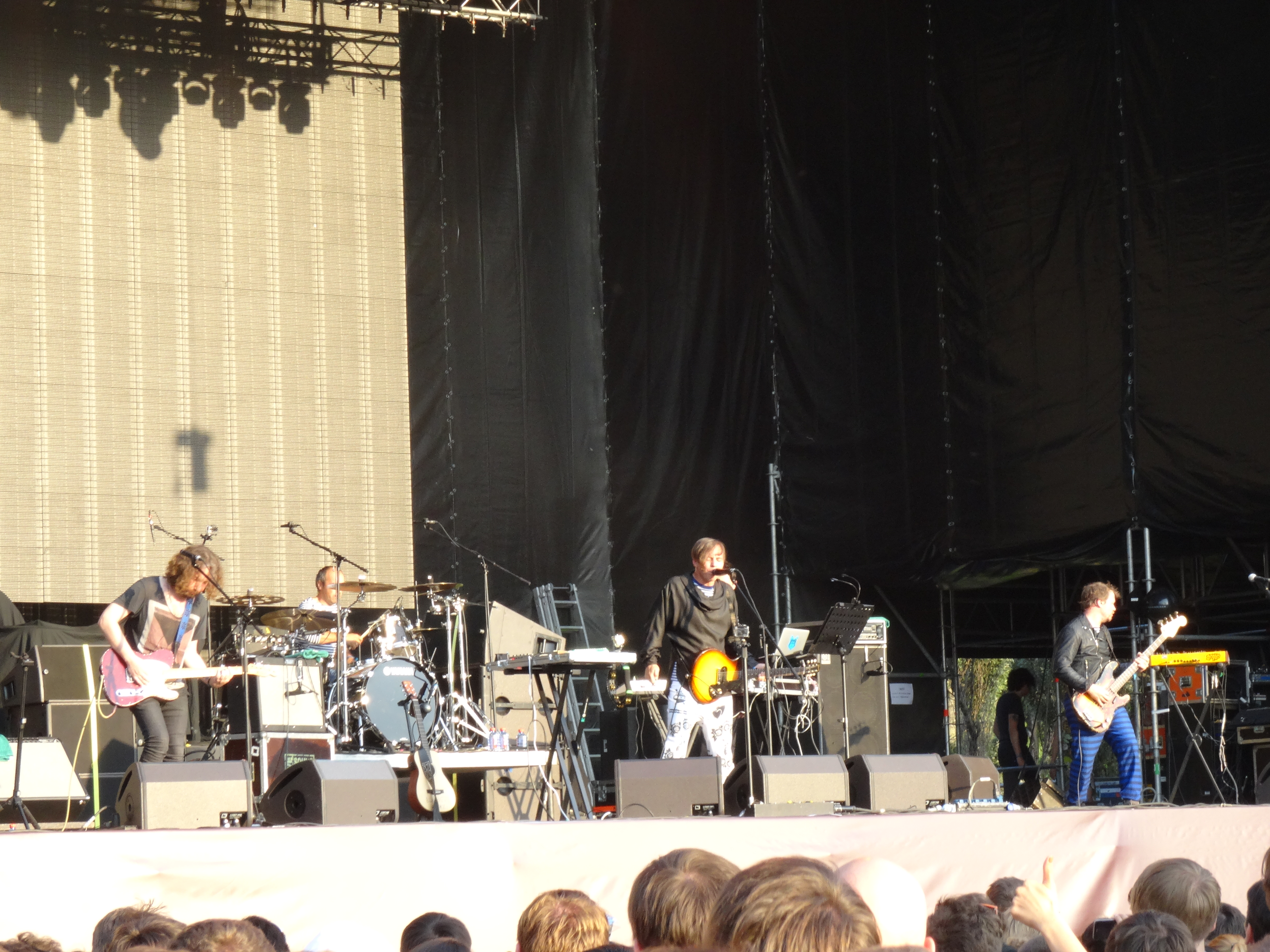 Mumiy Troll @ Park Live Festival, VVC (All-Russia Exhibition Centre), Moscow, 29.06.2013